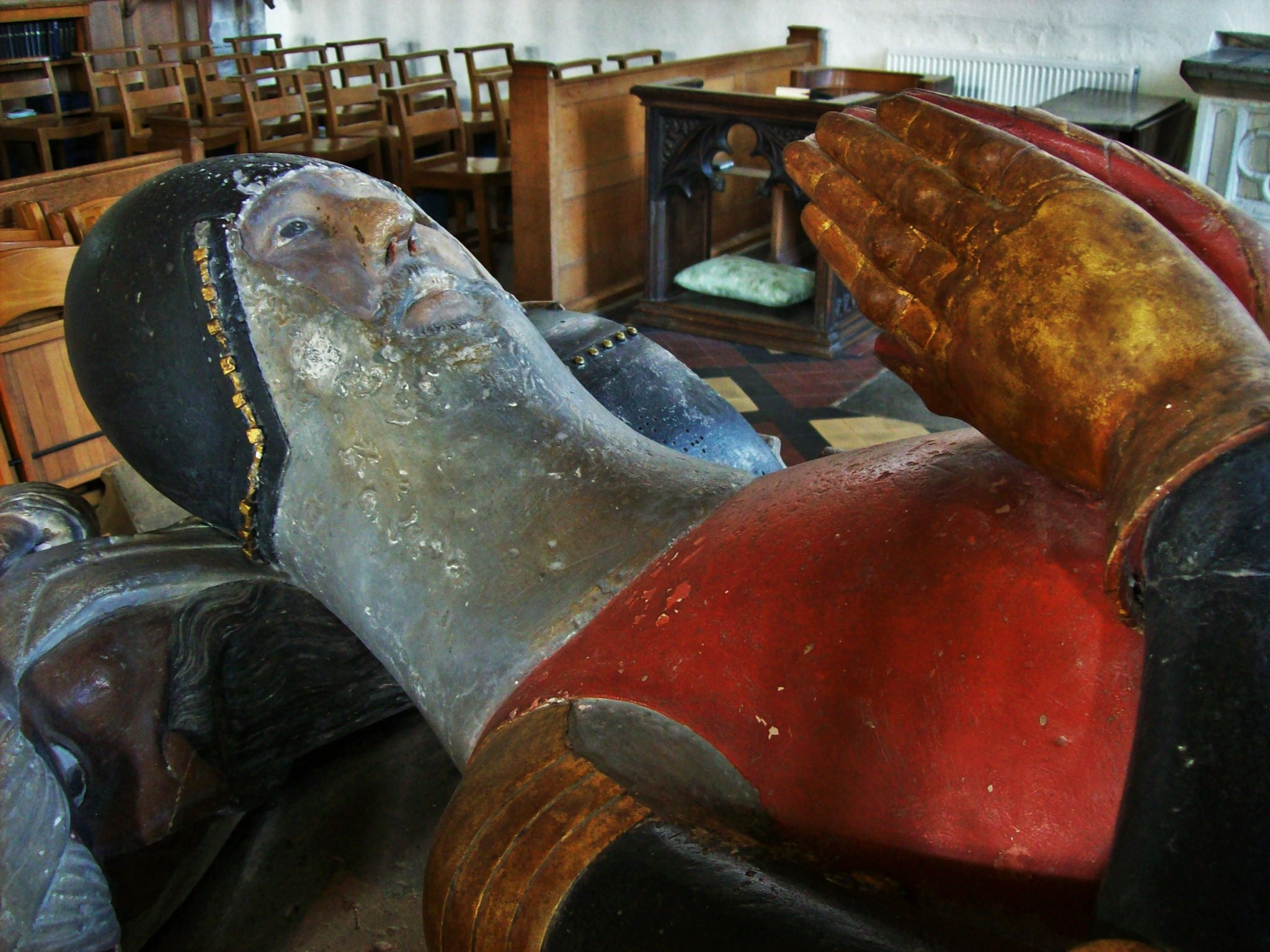 Tomb of Reginald, first Baron Cobham, St Peter and St Paul, Lingfield